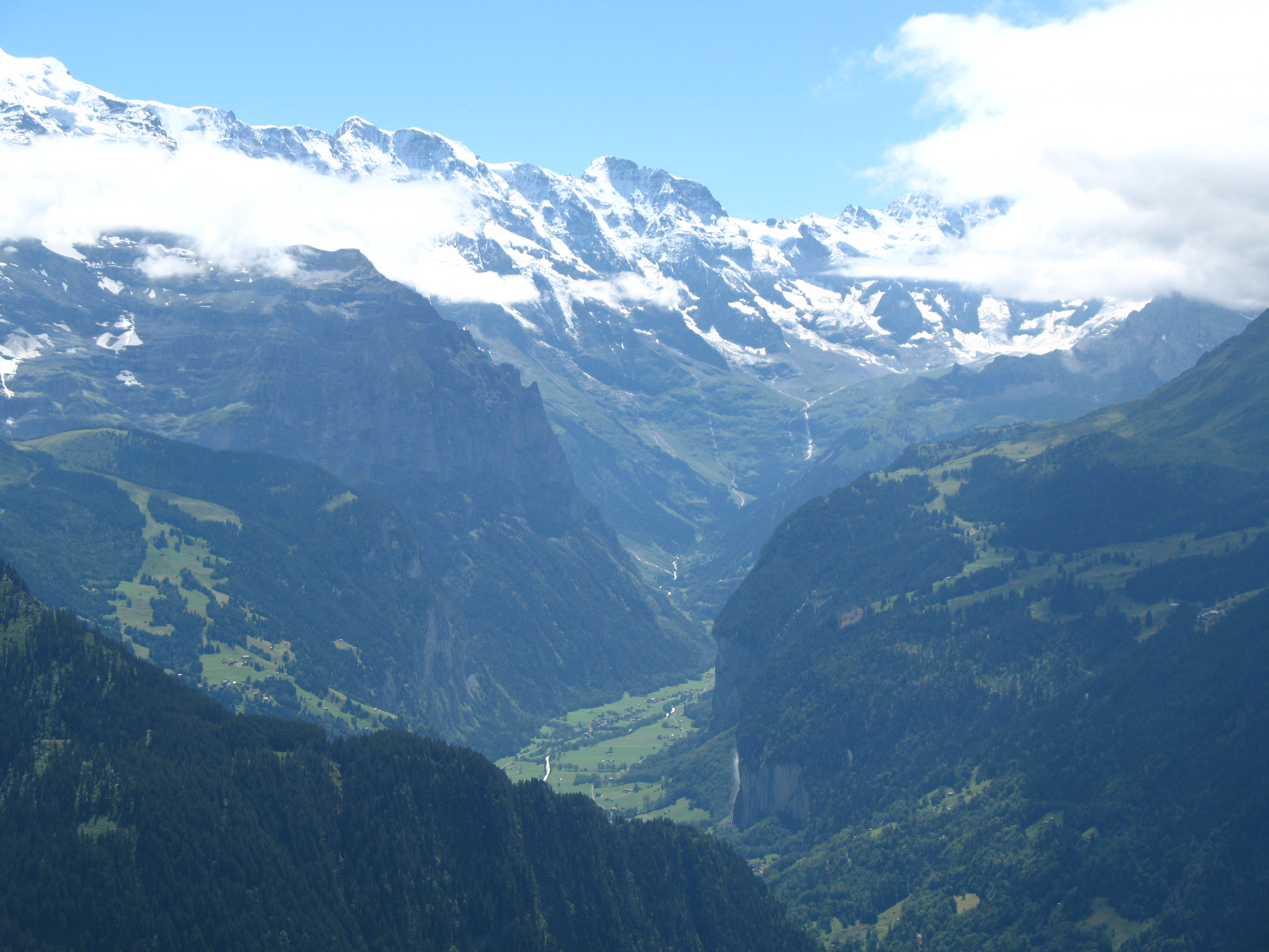 Ebnefluh, Mittaghorn, Grosshorn, Breithorn, and the Lauterbrunnen Valley viewed from Schynige Platte, Switzerland